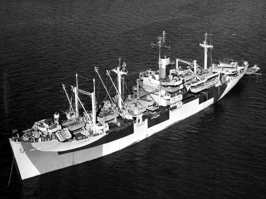 The U.S. Navy attack transport USS Hansford (APA-106) in San Pedro Bay, 19 November 1944. The last four ships built at Western Pipe and Steel Company (APA-106 to APA-109) had two pairs of kingposts connected at the top by light lattice trusses. They also received the additional pair of short kingposts just forward of the bridge introduced in USS Barnstable (APA-93).